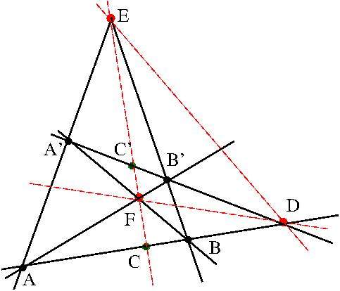 Quadrangle to be used in projective geometry.